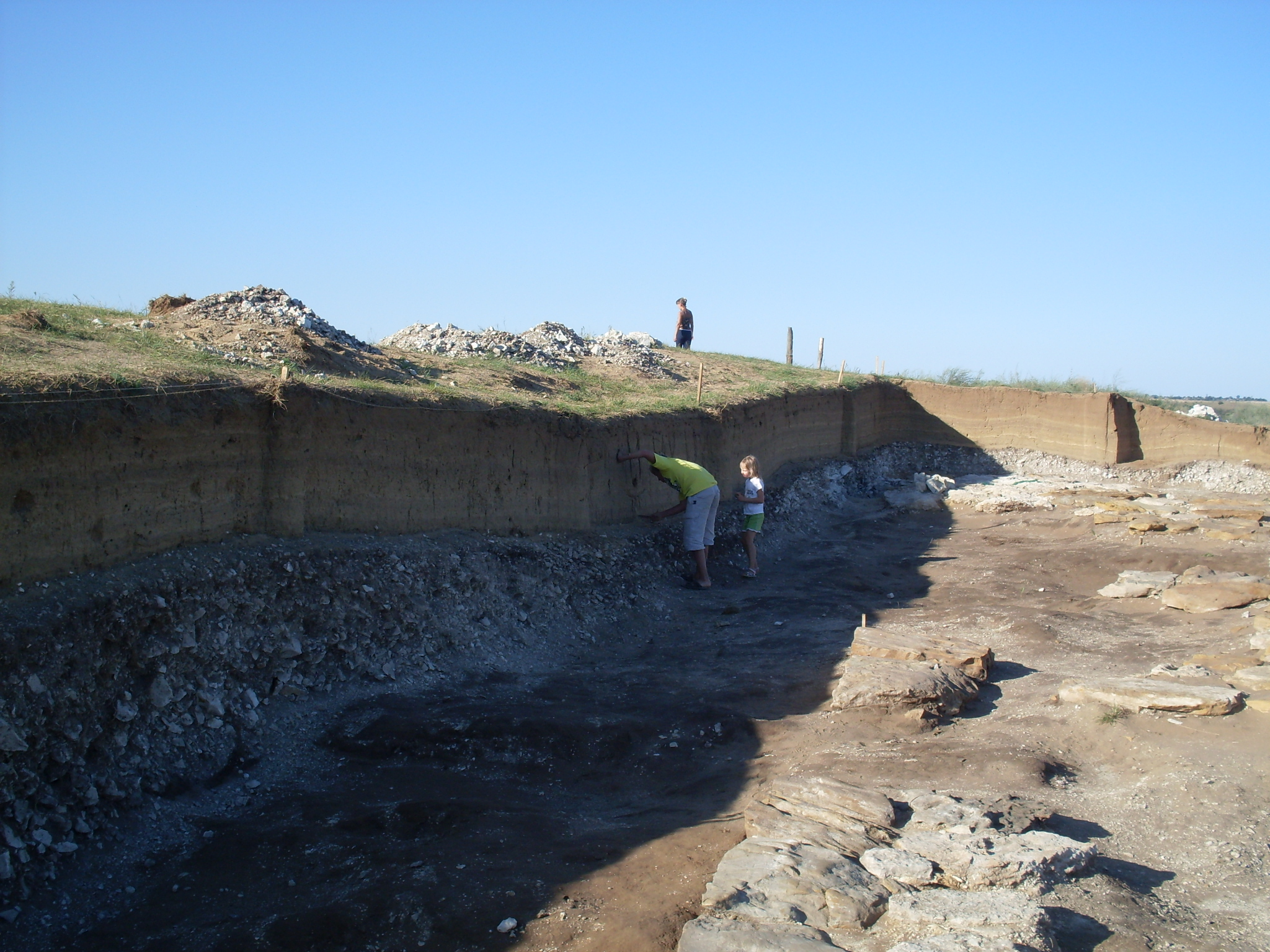 Khazar fortress at Sarkel (Belaya Vyezha, Russia). Excavations 2009